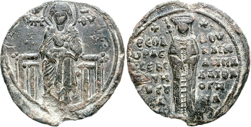 Theodora Doukaina Palaeologina. Mid-late 13th century. PB Bulla – Seal (37.09 g, 12h). Obverse: seated facing figure of the Theotokos, holding head of the infant Christ. Reverse: +/ΘEOΔ/WPAE/VCEBE/TATH/[A]VΓ(wreath)/[T]A on left, +/ΔOV/KAIN/AHΠA/ΛAIOΛ/OΓΗ/NA on right ("Theodora the pious Augusta, Doukaina Palaiologina"), Theodora standing facing, wearing crown and loros, holding scepter with trefoil top. Zacos 122c. VF, green-brown patina with earthen dusting. Theodora Doukaina Palaiologina was the daughter of Michael VIII Paelaiologos and Theodora Doukaina Vatatzina. Very little is known of her life, but she was given in marriage to Davit IV Narin, King of Georgia, in 1254, and died in 1293.